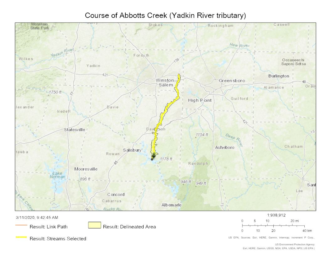 Map of the course of Abbotts Creek (Yadkin River tributary) in Davidson and Forsyth Counties, North Carolina.